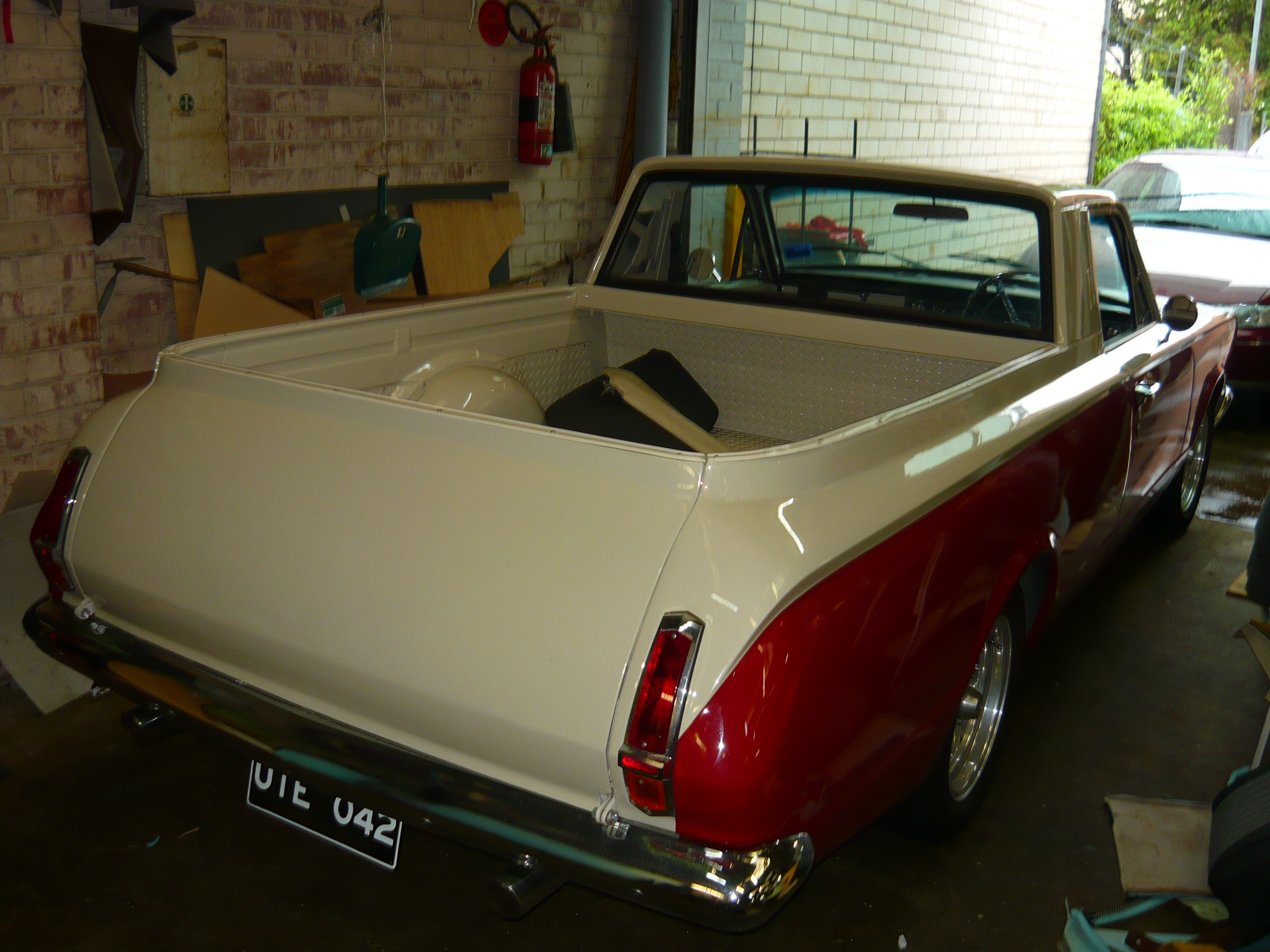 1966 Chrysler VC Dodge 106 utility. The Dodge 106 was a stripped down to basics version of the Chrysler VC Valiant ute. The Dodge version had no chrome (bumpers and hubcaps were painted silver and the headlight surrounds were plastic), and featured a slightly heavier duty rear suspension. This one has been repowered with a supercharged Lexus V8.